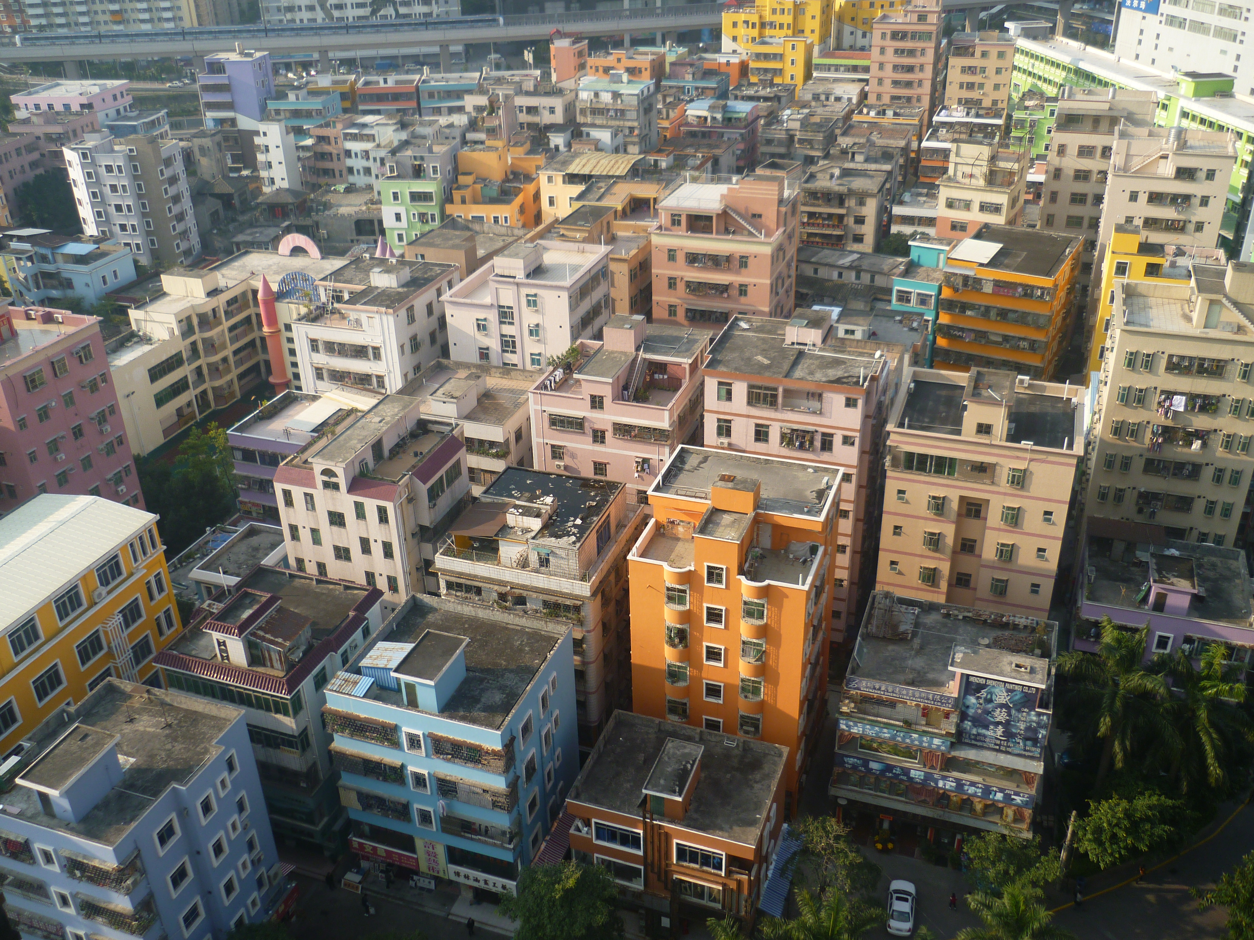 Dafen Oil Painting Village (Day).